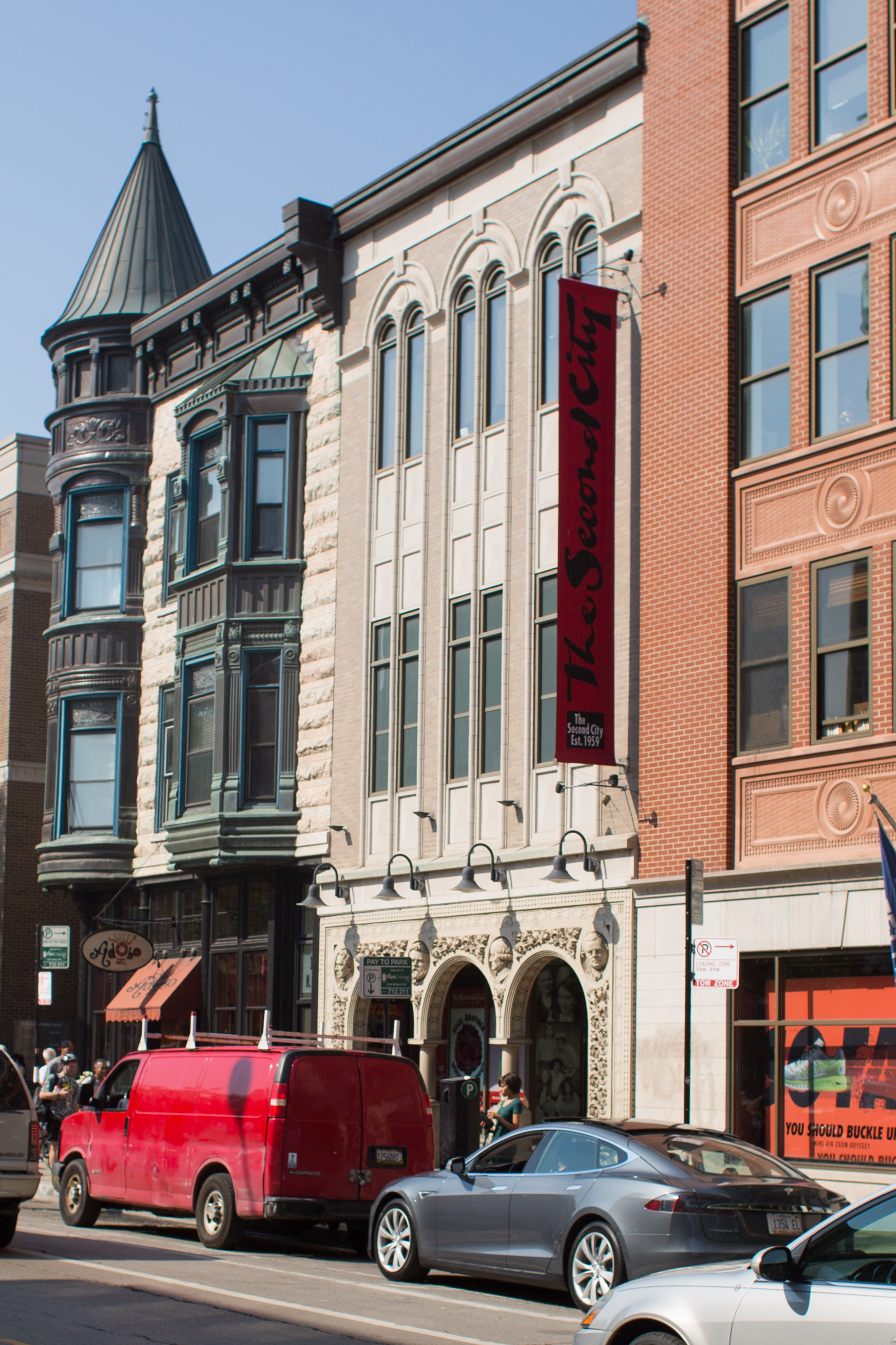 The Second City, Chicago 15 August 2015